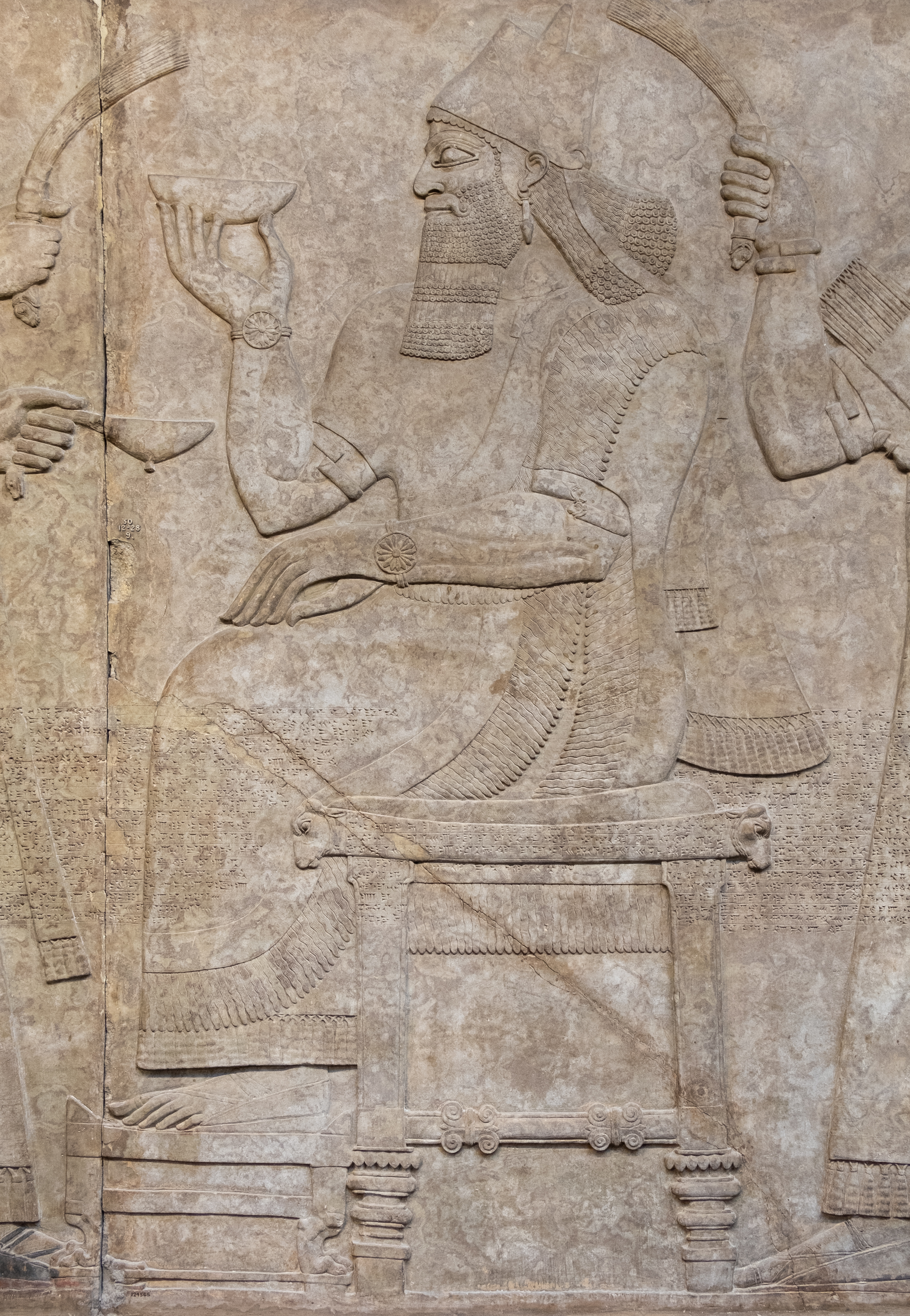 Middle East- G9 Assyria Nineveh - 44841858665 British Museum, London